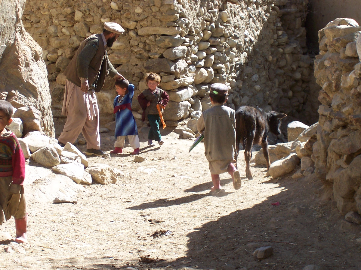 Typical scenery in a village called Warwarzu, in the Kuran wa Munjan region, Badakhshan, Afghanistan